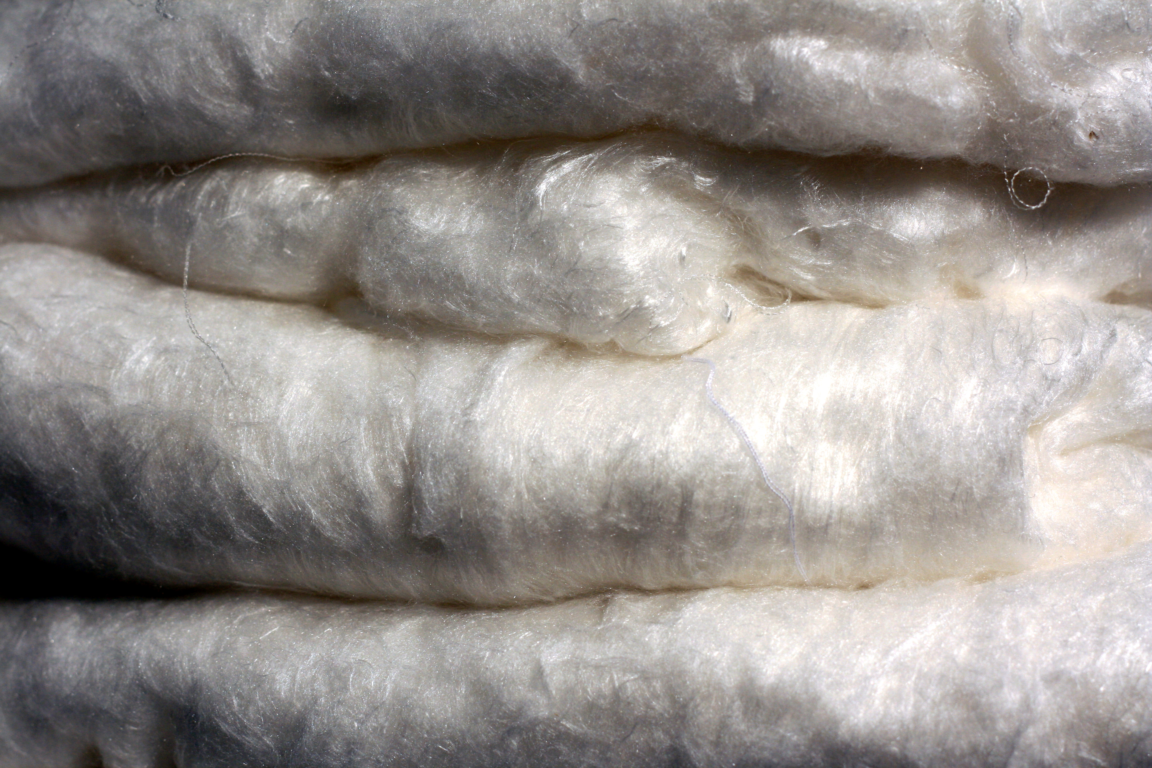 Silk duvets.